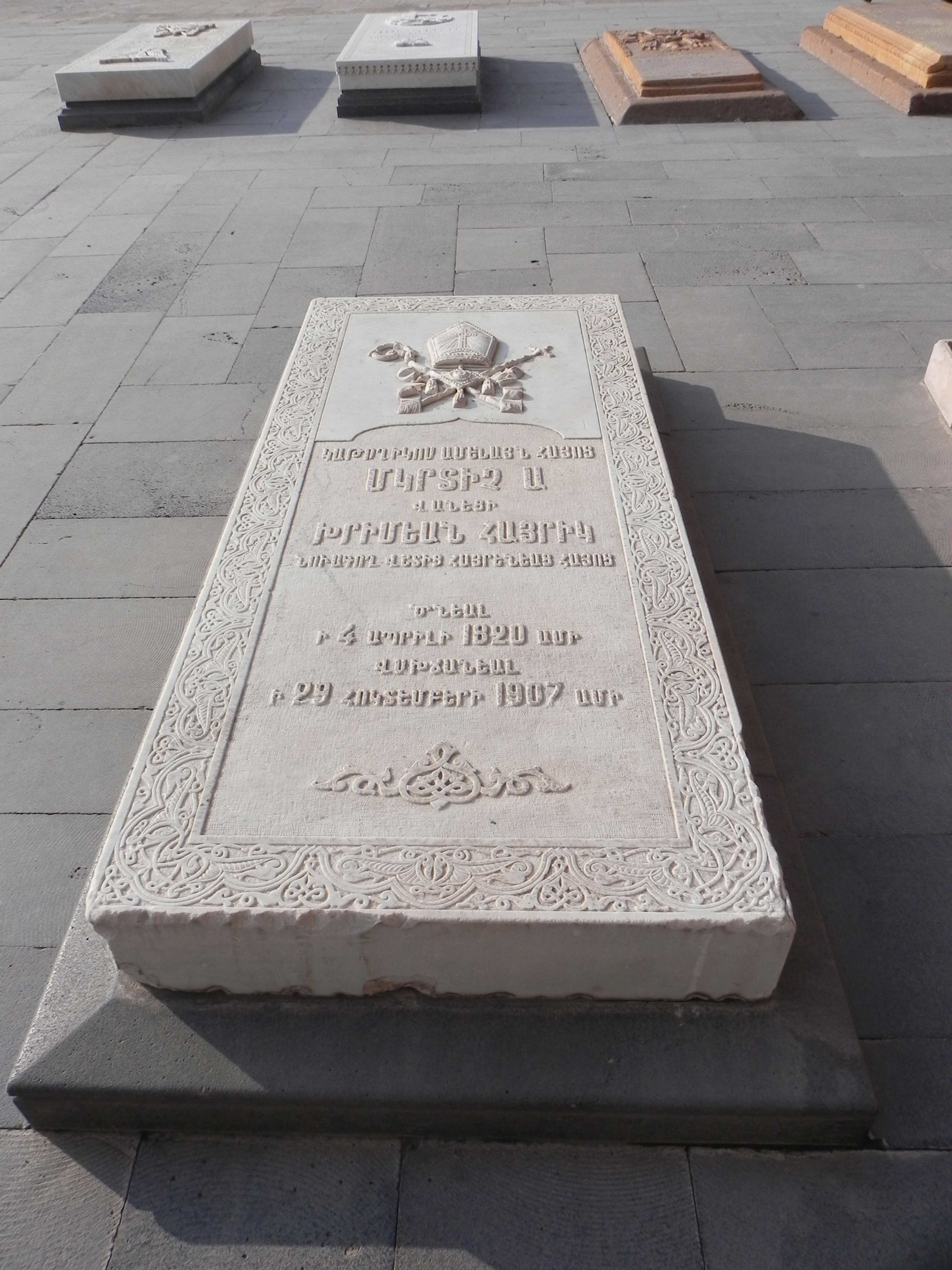 Tombstone of Mkrtich I, Catholicos of All Armenians at Mother Cathedral on the grounds of the Mother See of Holy Etchmiadzin